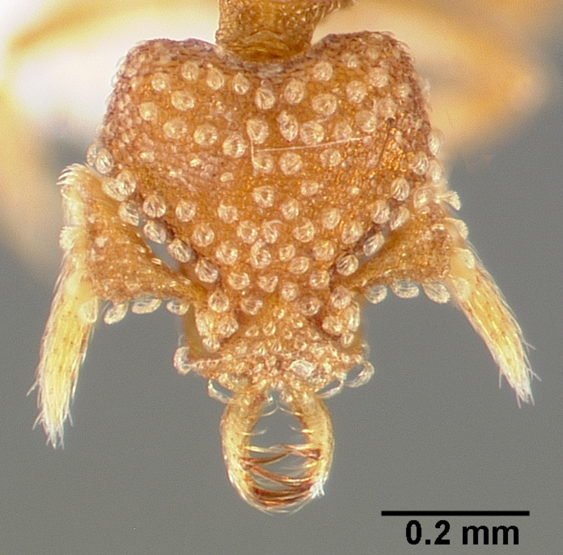 Head view of ant Strumigenys bathron specimen casent0005492.